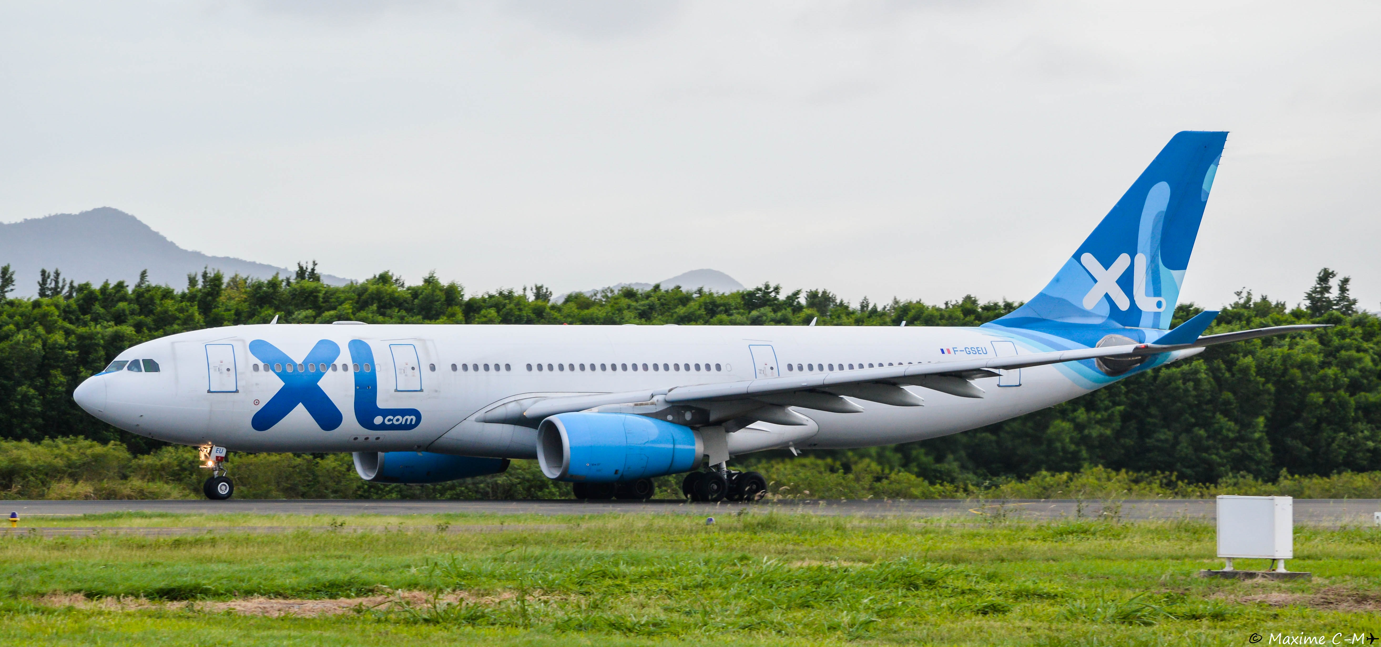 Echo Uniform